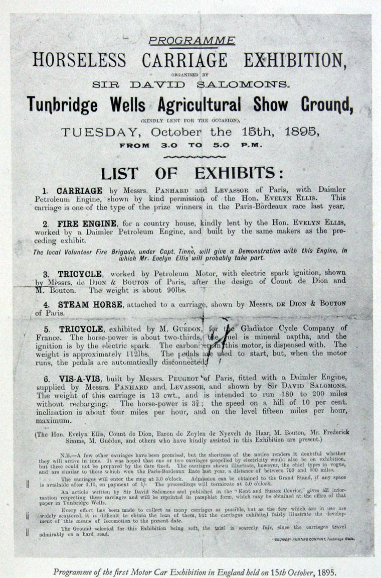 Zur Suche springen The Horseless Carriage Exhibition, held 15th October 1895 at the Agricultural Gardens, Tunbridge Wells, Kent, was the first motor vehicle show in the United Kingdom. It was organized by the mayor of Tunbridge Wells, electric engineer Sir David Salomons, who lent his own Peugeot Vis-à-vis, and Frederick Simms. Further entries included a Daimler-powered Panhard-Levassor owned by Sir Evelyn Ellis (1843–1913), and motor tricycles by Clément-Gladiator and De Dion-Bouton, the ladder was demonstrated by Georges Bouton. A De Dion-Bouton steam tractor attached to a landau carriage of the type that won the Paris-Rouen-Paris event in 1894 was announced, but did not appear. The event became influential in the forming of the British motor industry. This is a reproduction of the original dating from 1946.